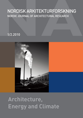 The front cover of Nordic Journal of Architectural Research no. 1/2, 2010.